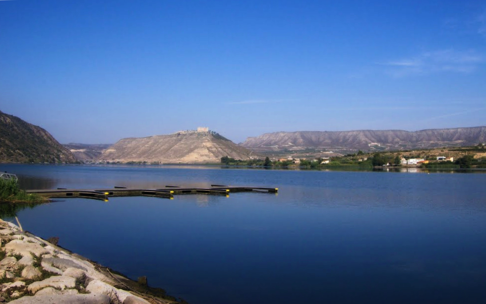 Ebro river in Mequinenza